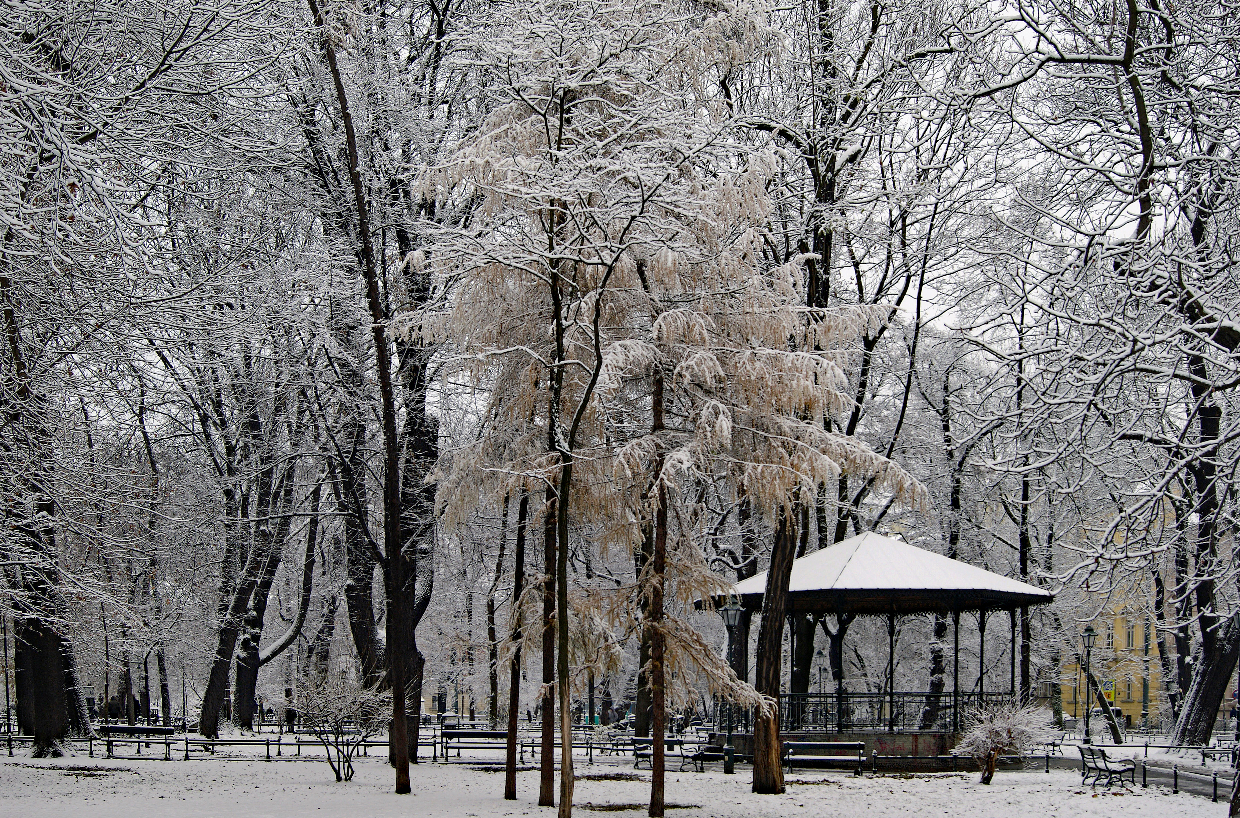 Planty Garden, pavilion, Old Town, Krakow, Poland